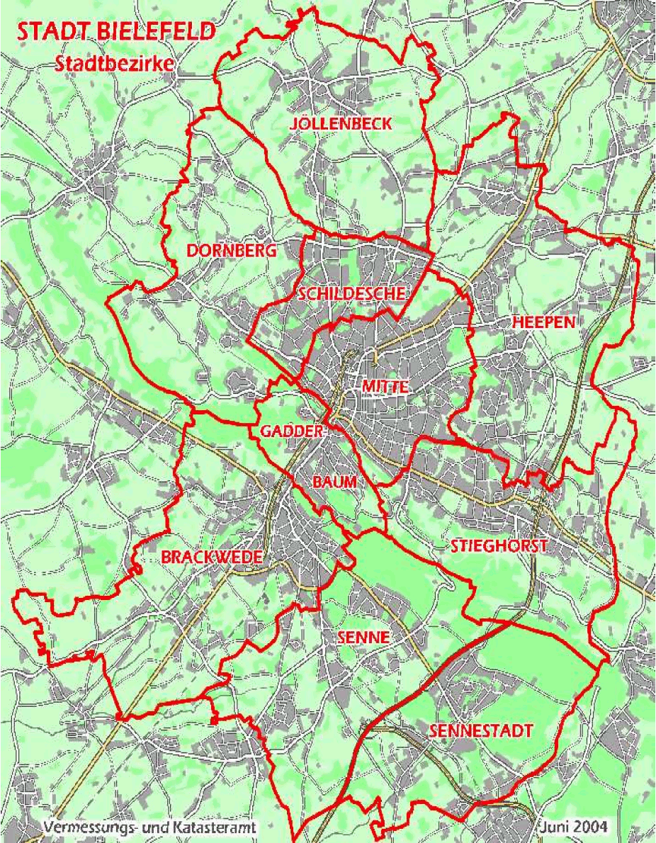 appendix 1 to the main charter of the city of Bielefeld: the city limits and the boroughs' boundaries